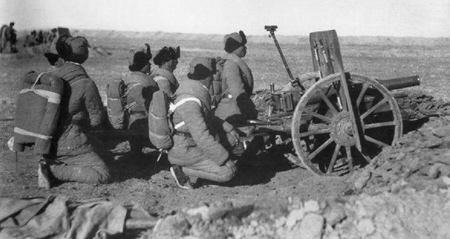 Chinese artillery during the retaking of Bailingmiao, Suiyuan campaign, November 1936.